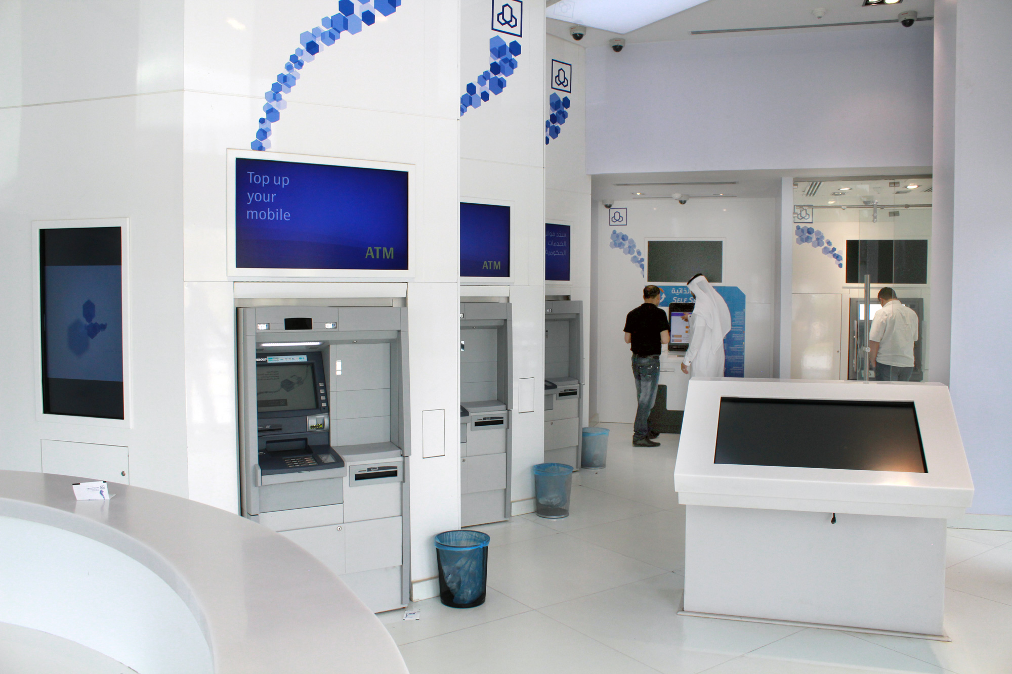 Al Rajhi Bank e-branch